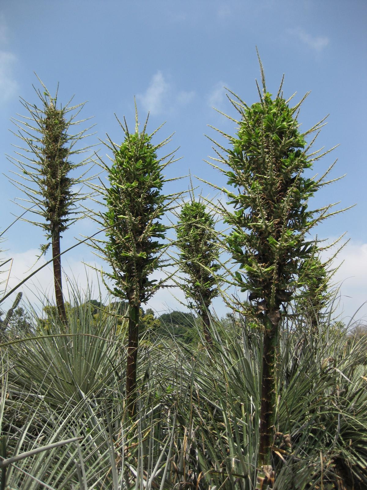 Photographed at Huntington Gardens (Los Angeles) in April